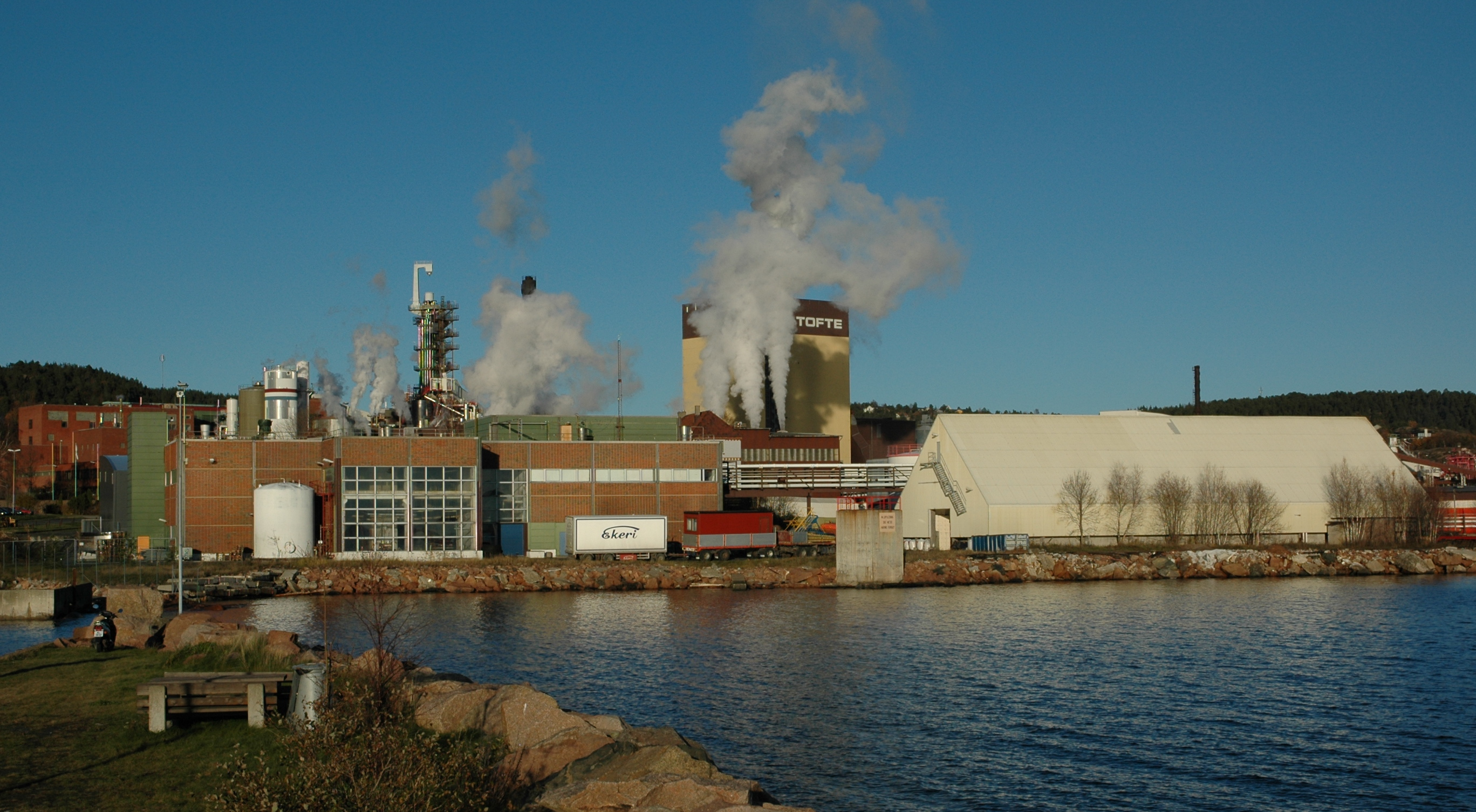 The cellulose factory Södra Cell in Tofte, Norway. My own photography, Kjetil Lenes.